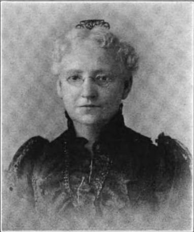 Photograph of American author Martha Finley (1828-1909), who wrote the Elsie Dinsmore series of book. Photo appears in the March 1909 issue of The Bookman, p. 18